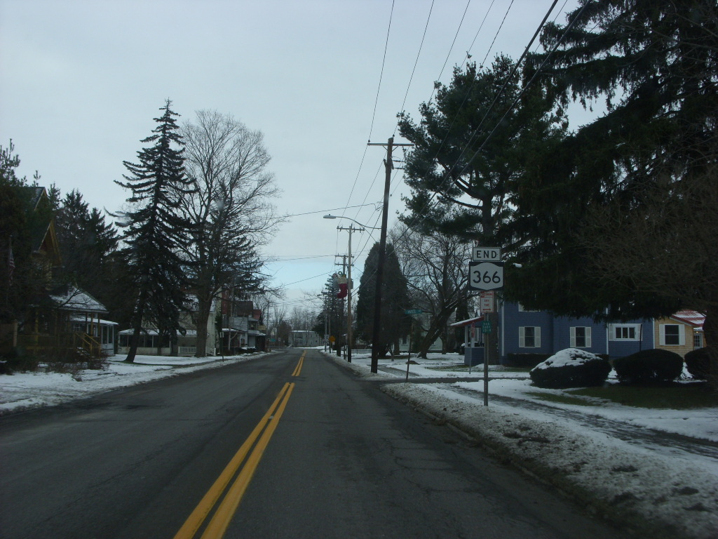 New York State Route 366 approaching its western terminus at New York State Route 38 in Freeville.